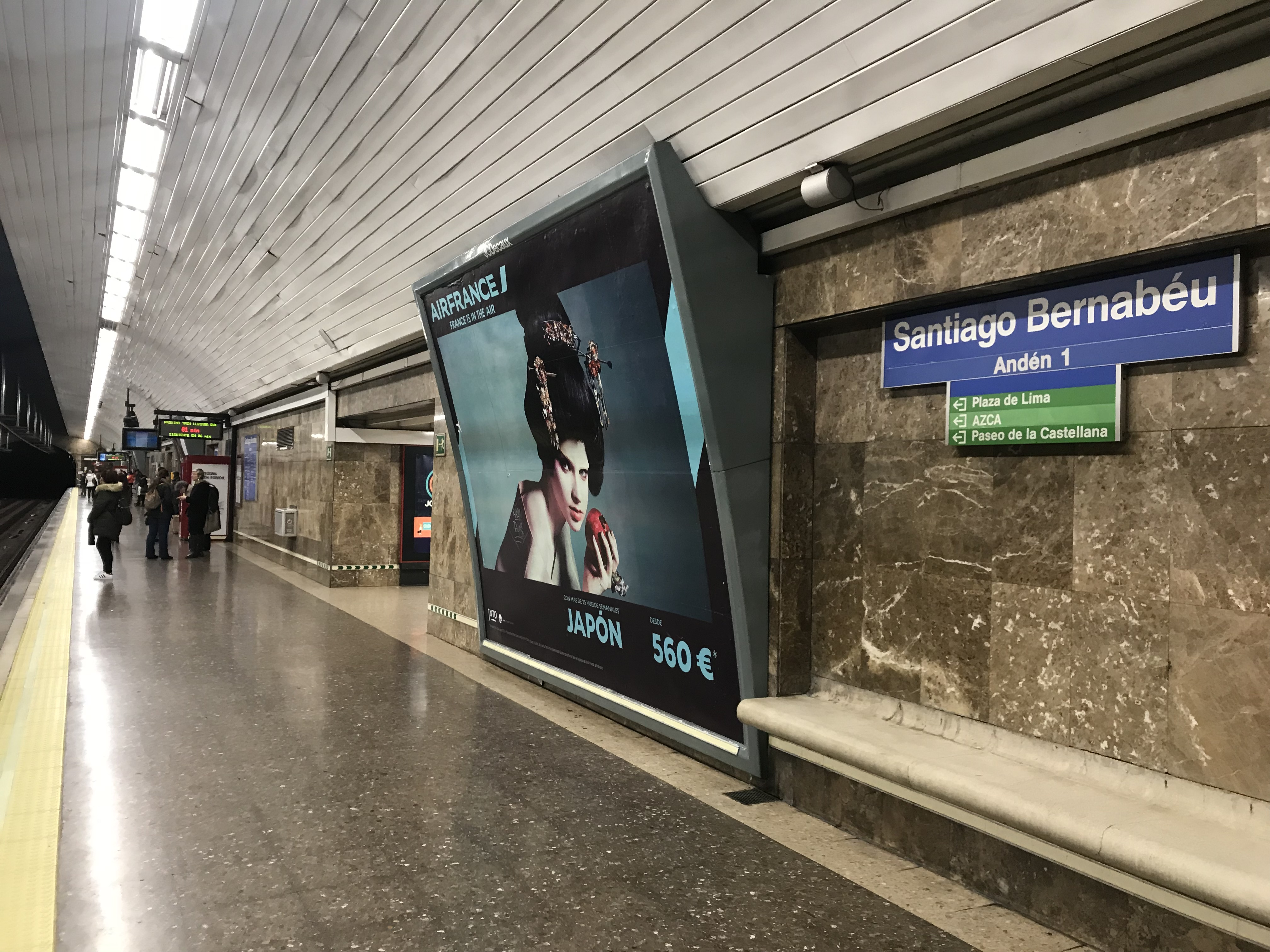 Platform of Santiago Bernabéu Station, with a huge Air France advertisement.